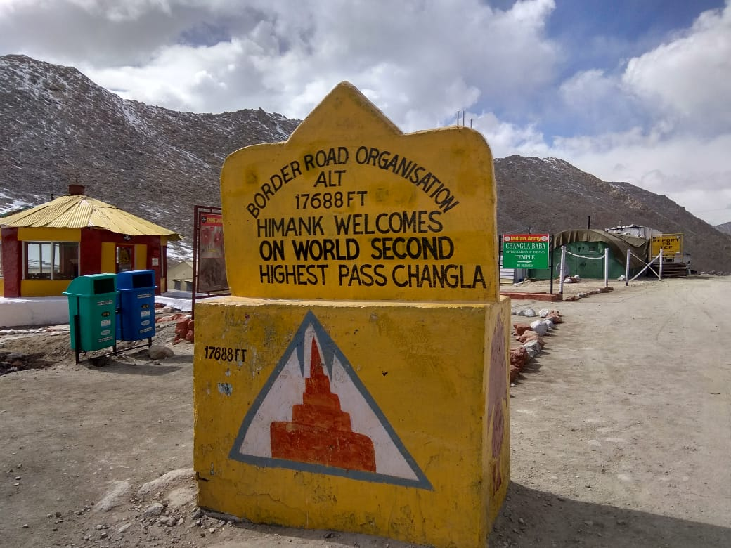 Second Highest Pass Changla 17688 FT in Leh Ladakh